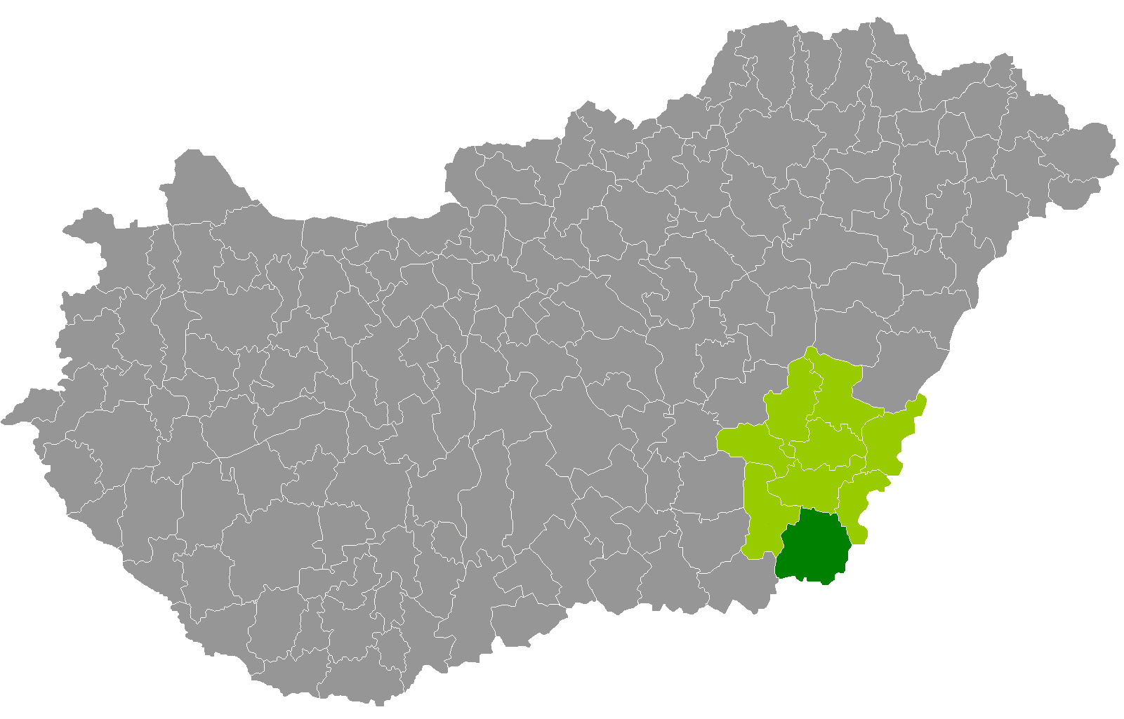 Location of Mezőkovácsháza District, Békés, Hungary